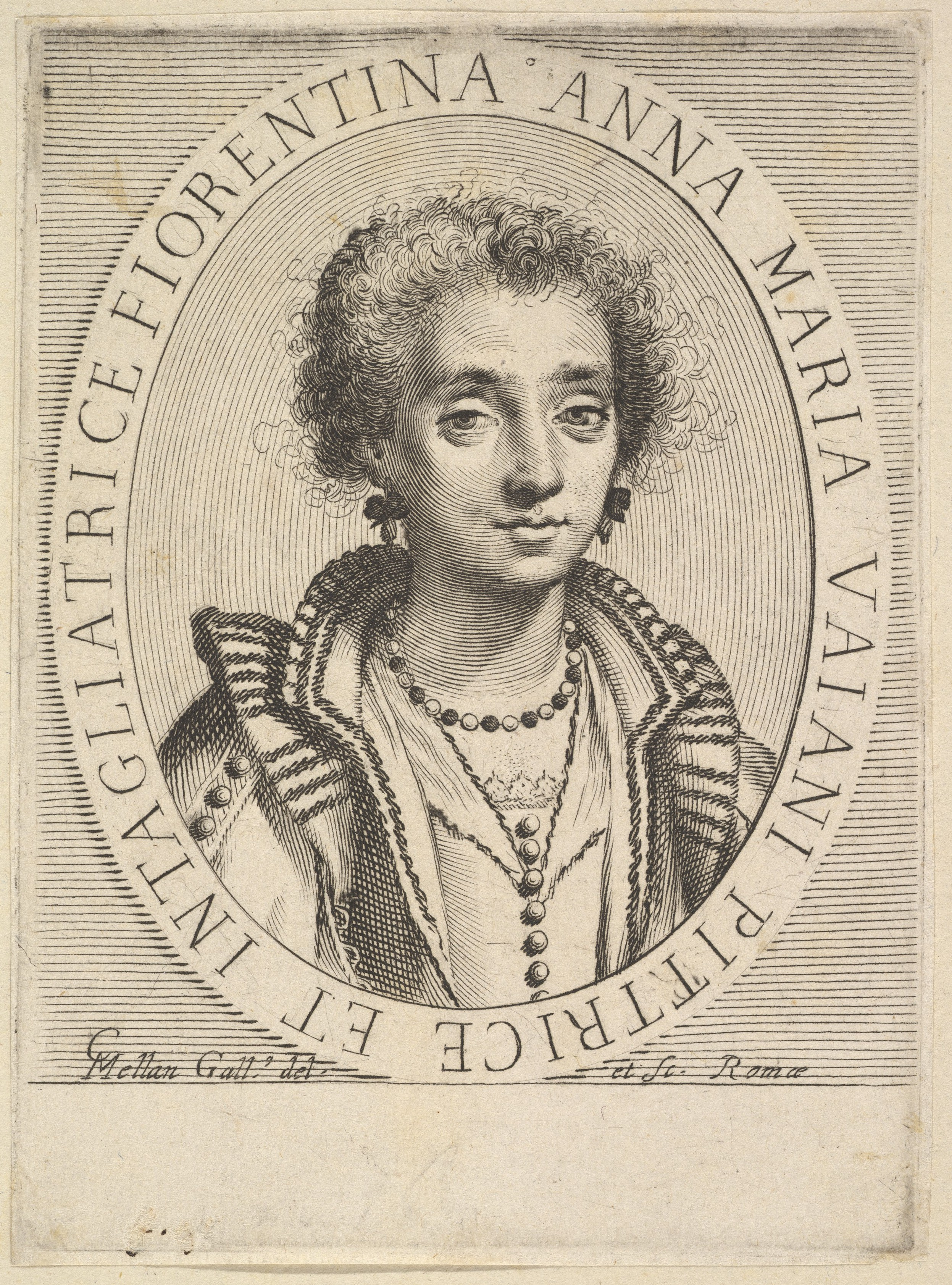 Print; Prints